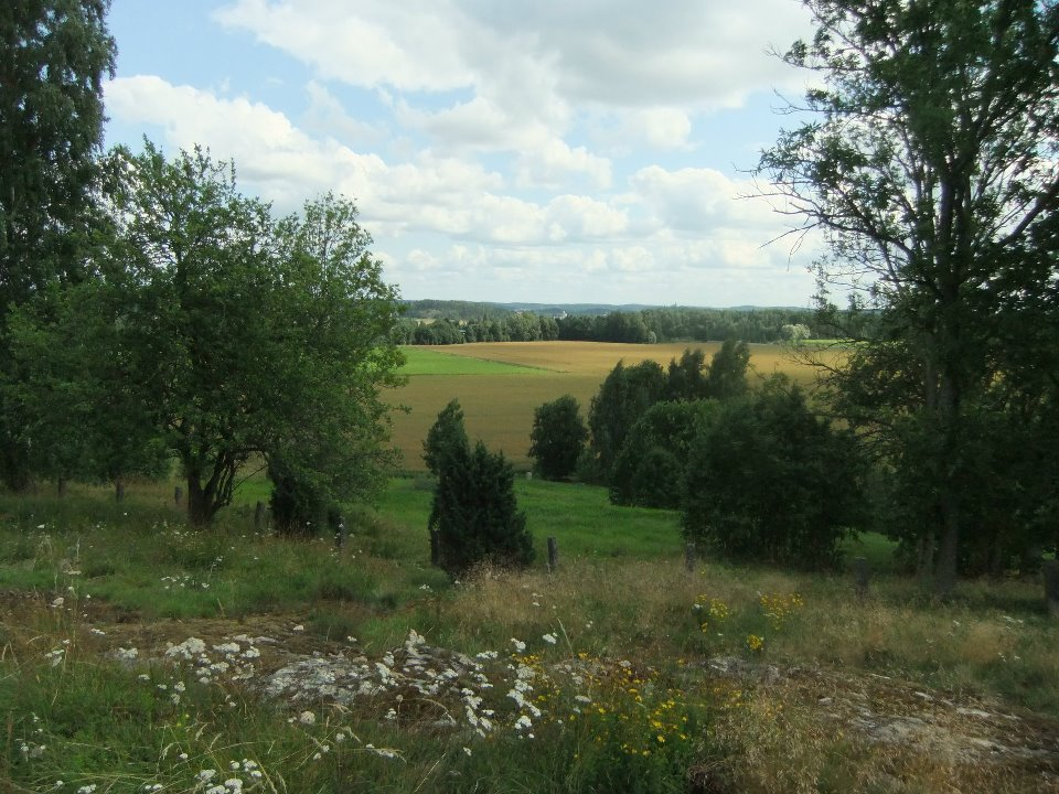 Rikalanmäki Iron Age complex in Salo, Finland. Settlements and burials of different dates.